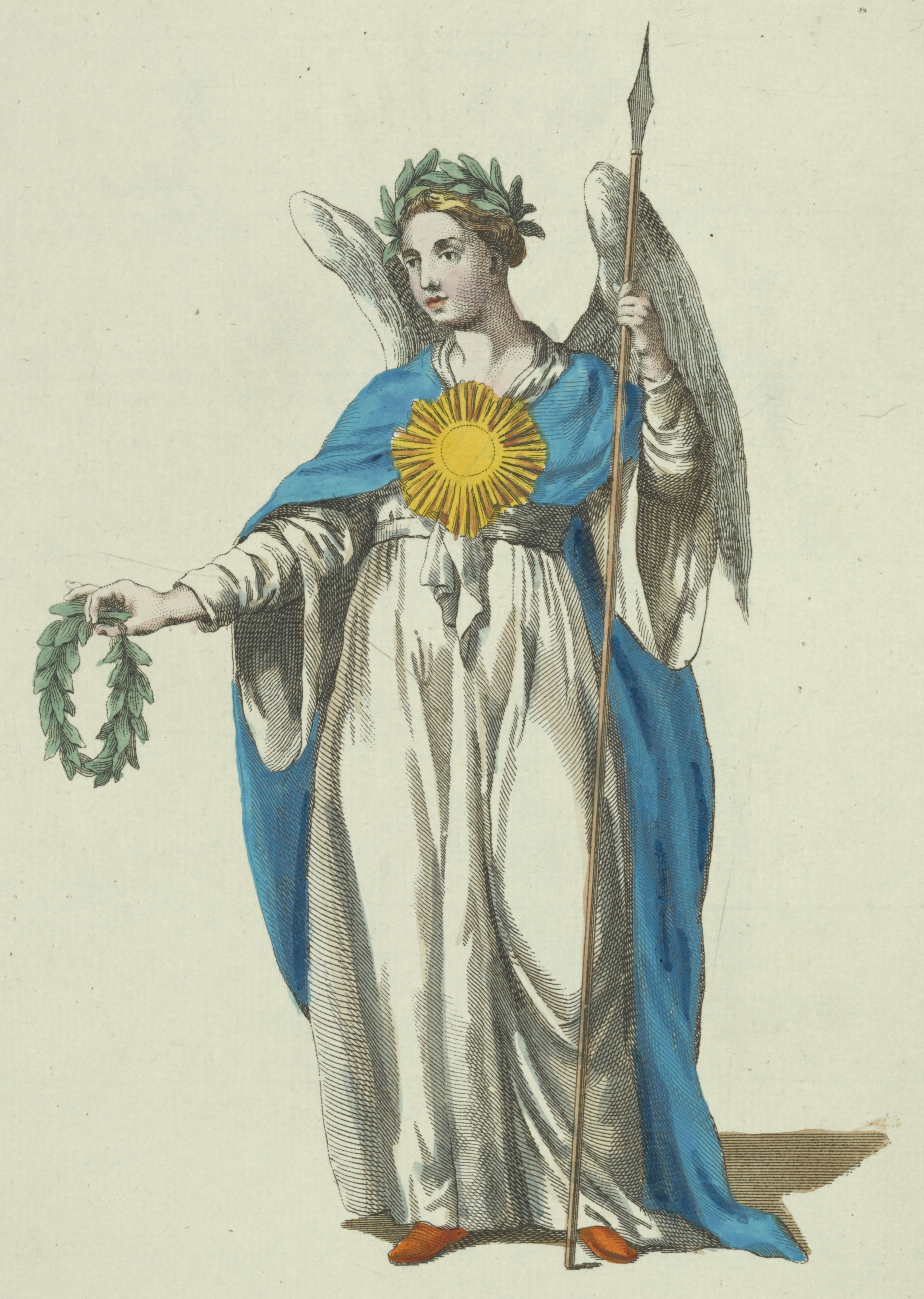 Virtue. La Vertu.